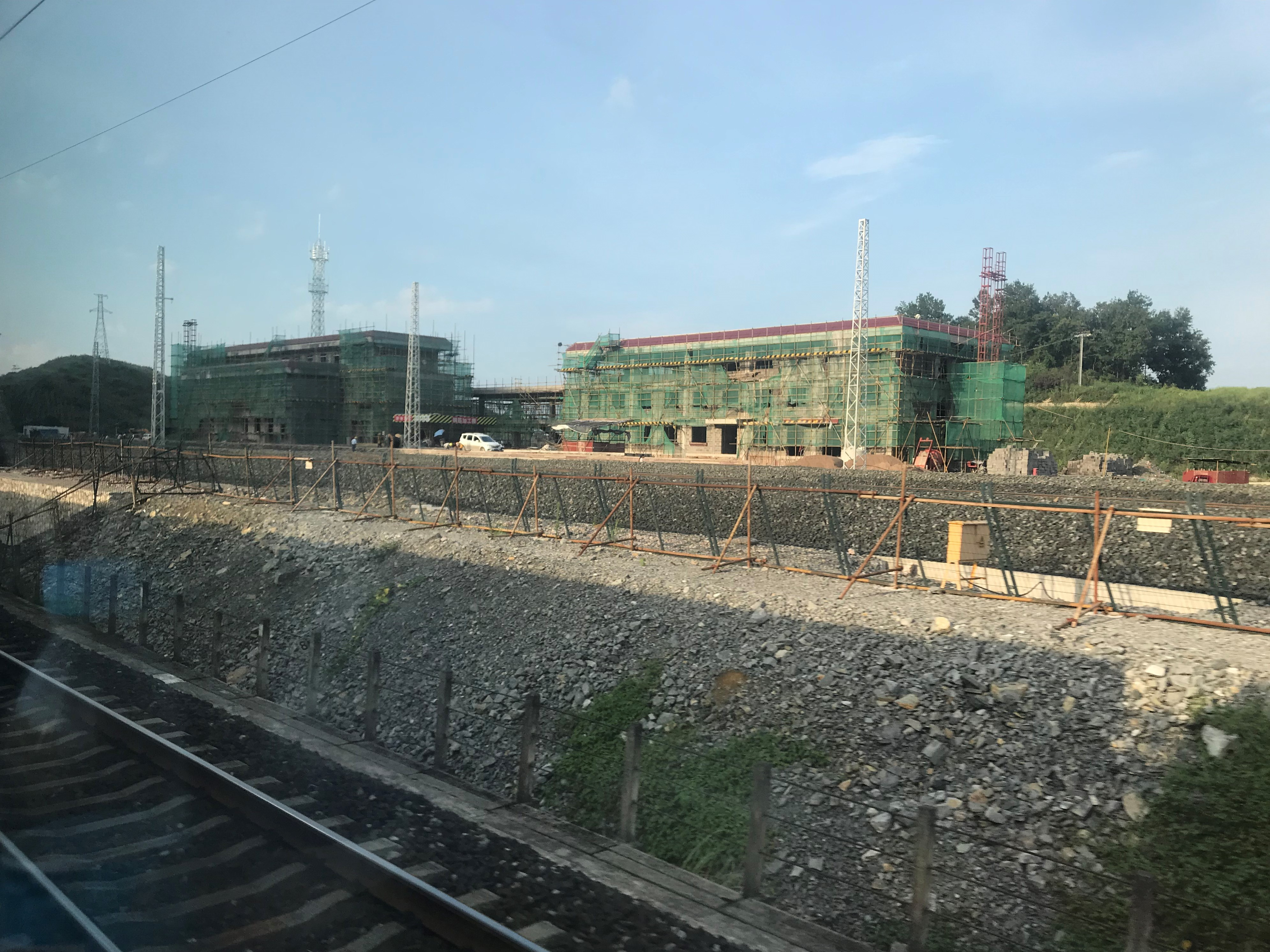 It was renamed as Jiangjiaping later